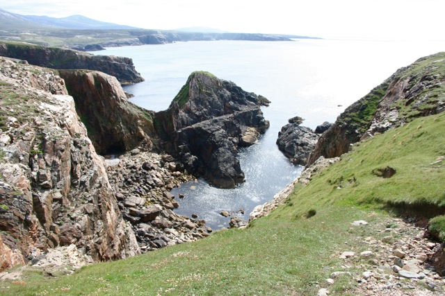 Inlet on the coast beyond Mangurstadh